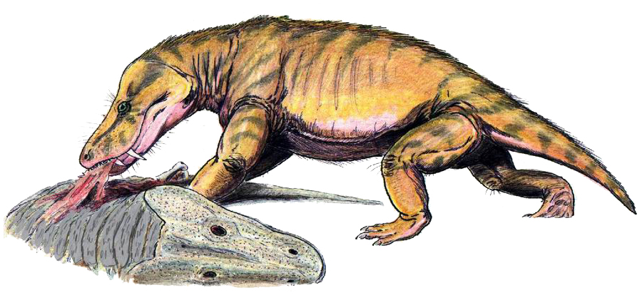 Scylacosuchus- reconstruction autor - Bogdanov